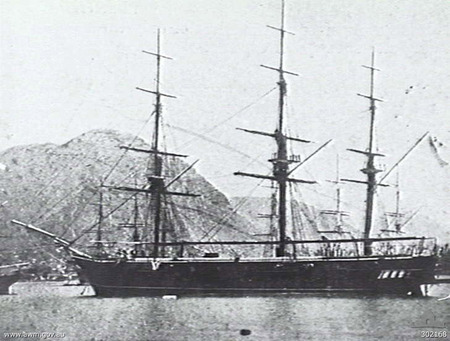 Port side view of the screw corvette HMS Cossack.